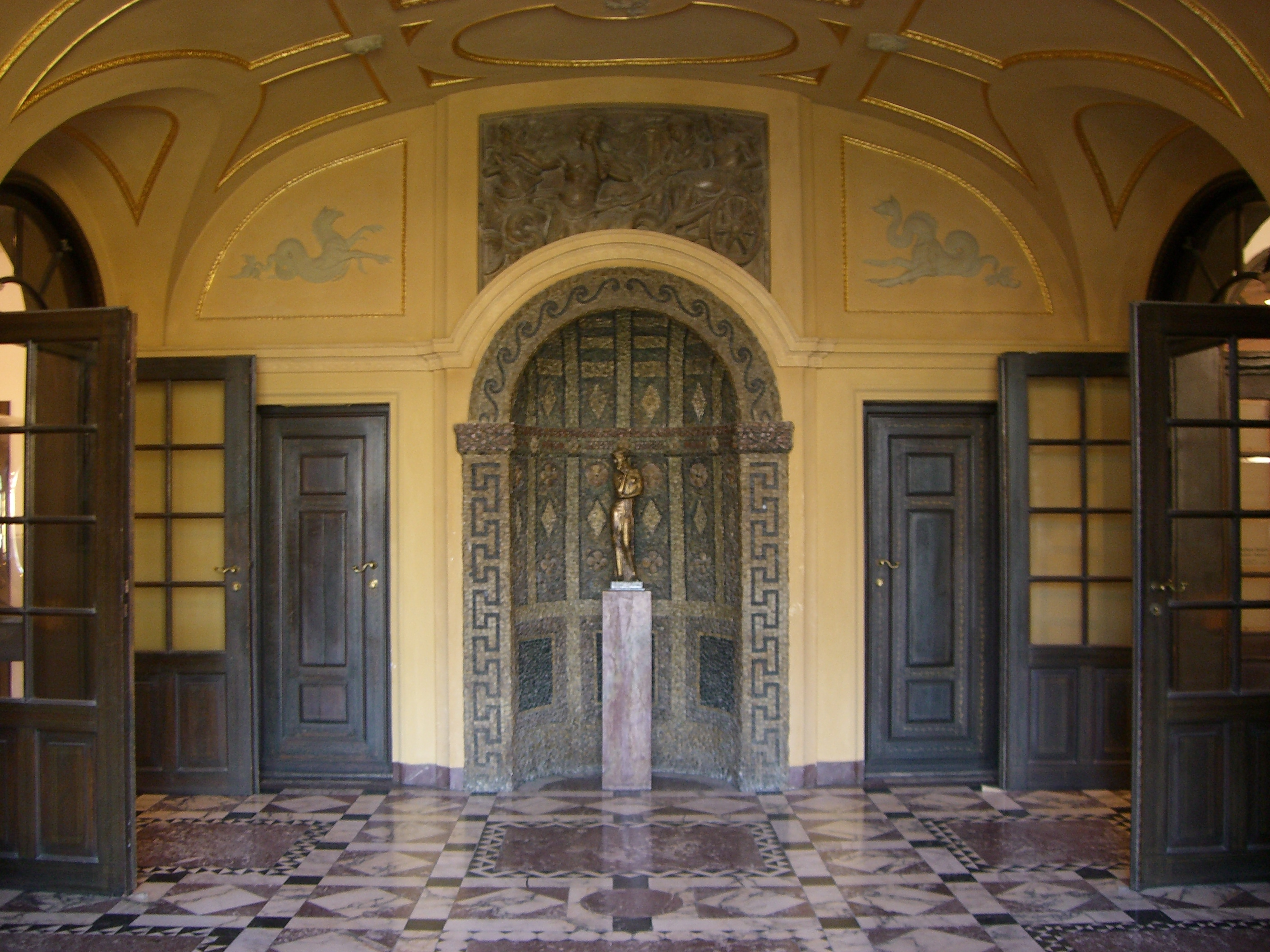 Lenbachhaus LocationMaxvorstadt , GermanyCoordinates48° 08′ 49″ N, 11° 33′ 49″ E Established1929 Web page control : Q262234 VIAF: 129728232 ISNI: 0000 0001 2156 4241 LCCN: n81058761 GND: 2022696-2 BNF: 118674899 WorldCat institution QS:P195,Q262234 (Eingangshalle)